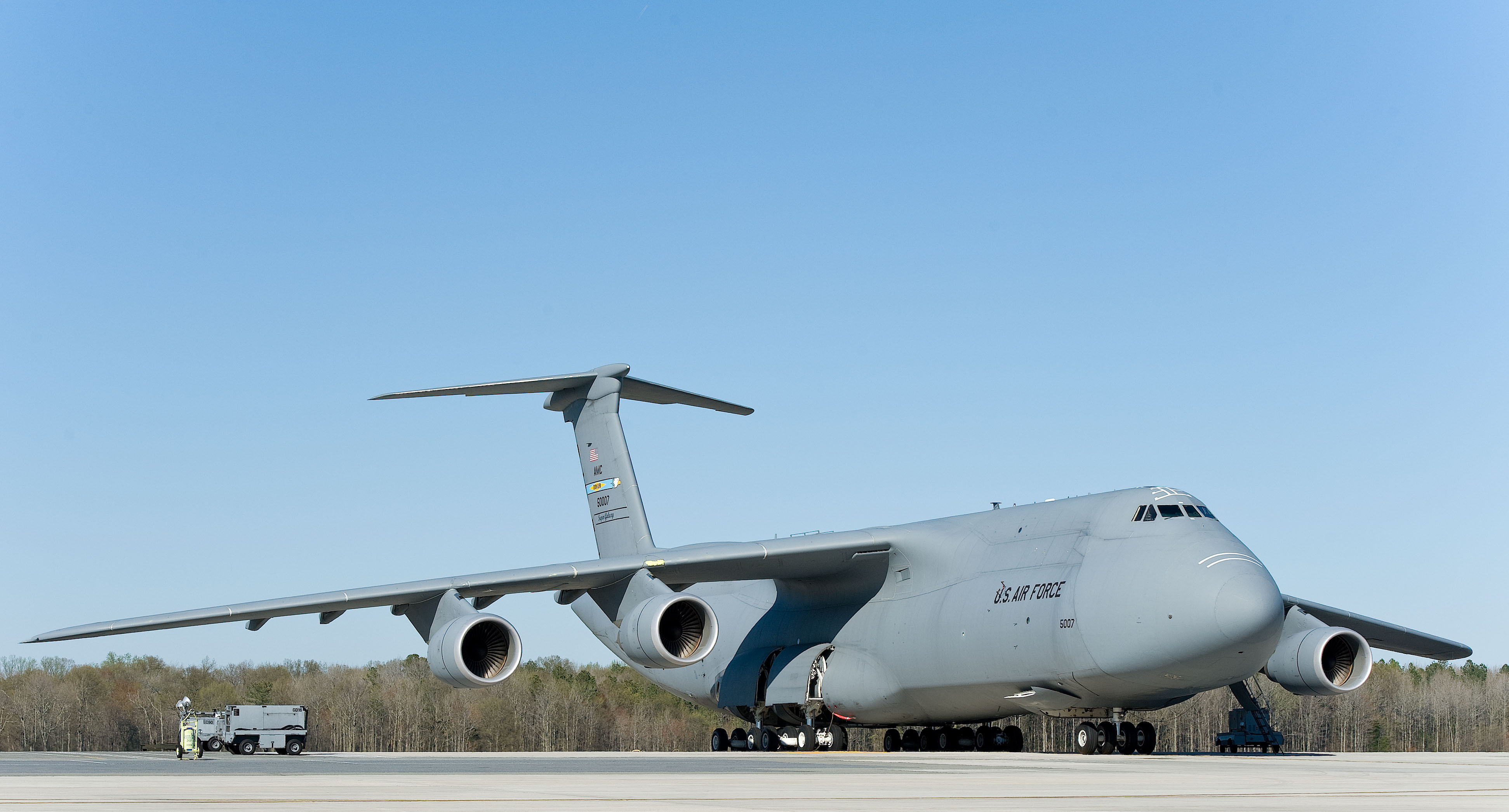 A C-5M Super Galaxy sits on the flight line April 16, 2014, at Dover Air Force Base, Del. The Super Galaxy features over 70 upgrades, including four General Electric Aviation CF6-80C2 engines, a modernized digital cockpit, communications, enhanced navigation and safety equipment, and an all-weather flight control system. (U.S. Air Force photo/Roland Balik) Unit: 436th Airlift Wing DVIDS Tags: Base; DoD; Dover AFB; Delaware; Air Mobility Command; Aircrew; C-5M; Super Galaxy; C-5M Super Galaxy; Del; Aircraft; Air Force; AMC; United States Air Force; U.S. Air Force; U.S.A.F.; Dover Air Force Base; DE; Dover; April; 436th Airlift Wing; 2014; DAFB; 436th Maintenance Group; 436th Aircraft Maintenance Squadron; 436 AW; The Eagle Wing; 436 AMXS; 9th Airlift Squadron; 436 OG; 436th Operations Group; 9 AS; 436 MXG